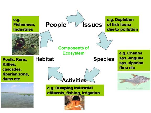 Showing various components of ecosystem and their interrelationships.